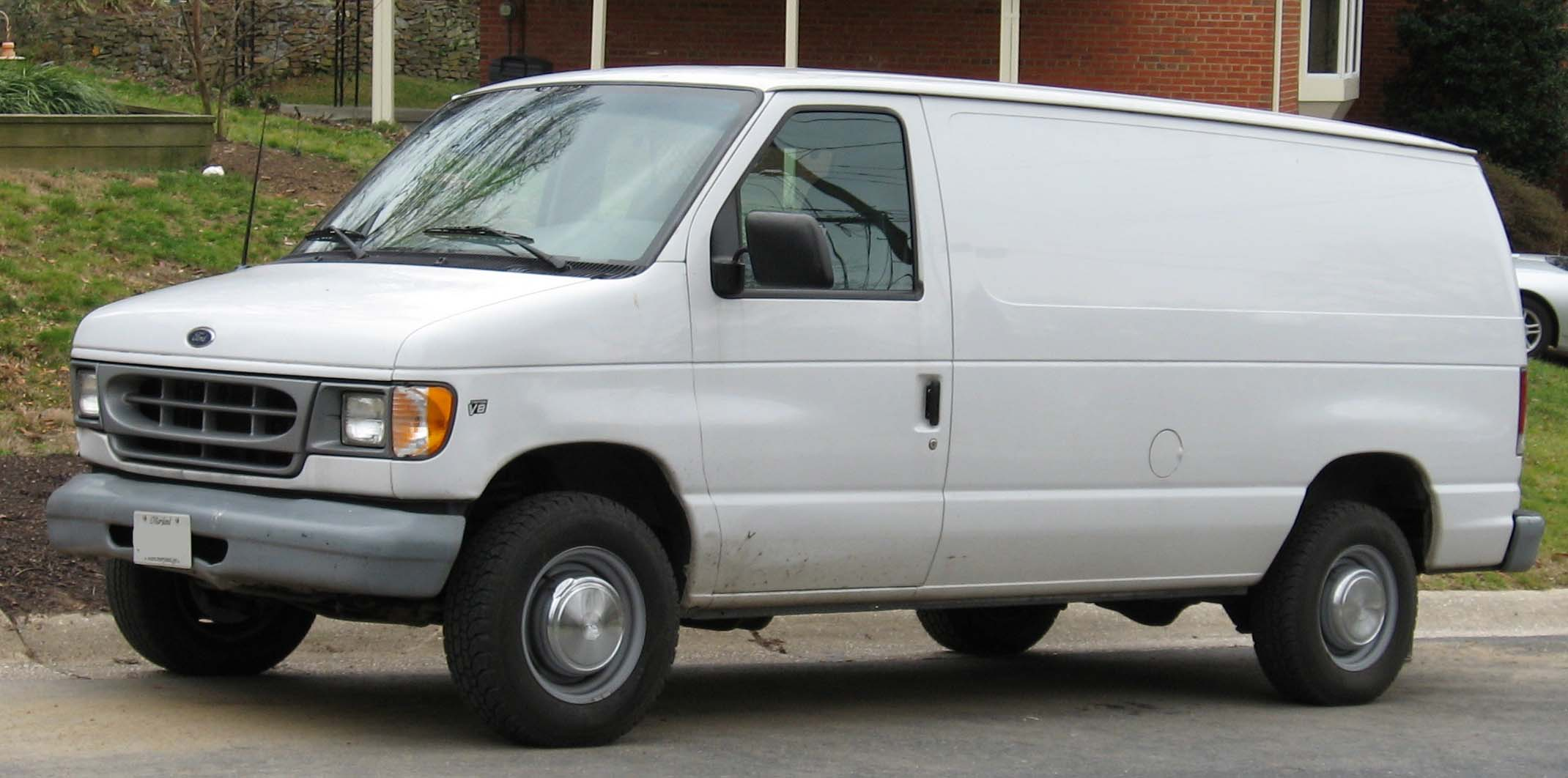 1997-2002 Ford Econoline photographed in USA.